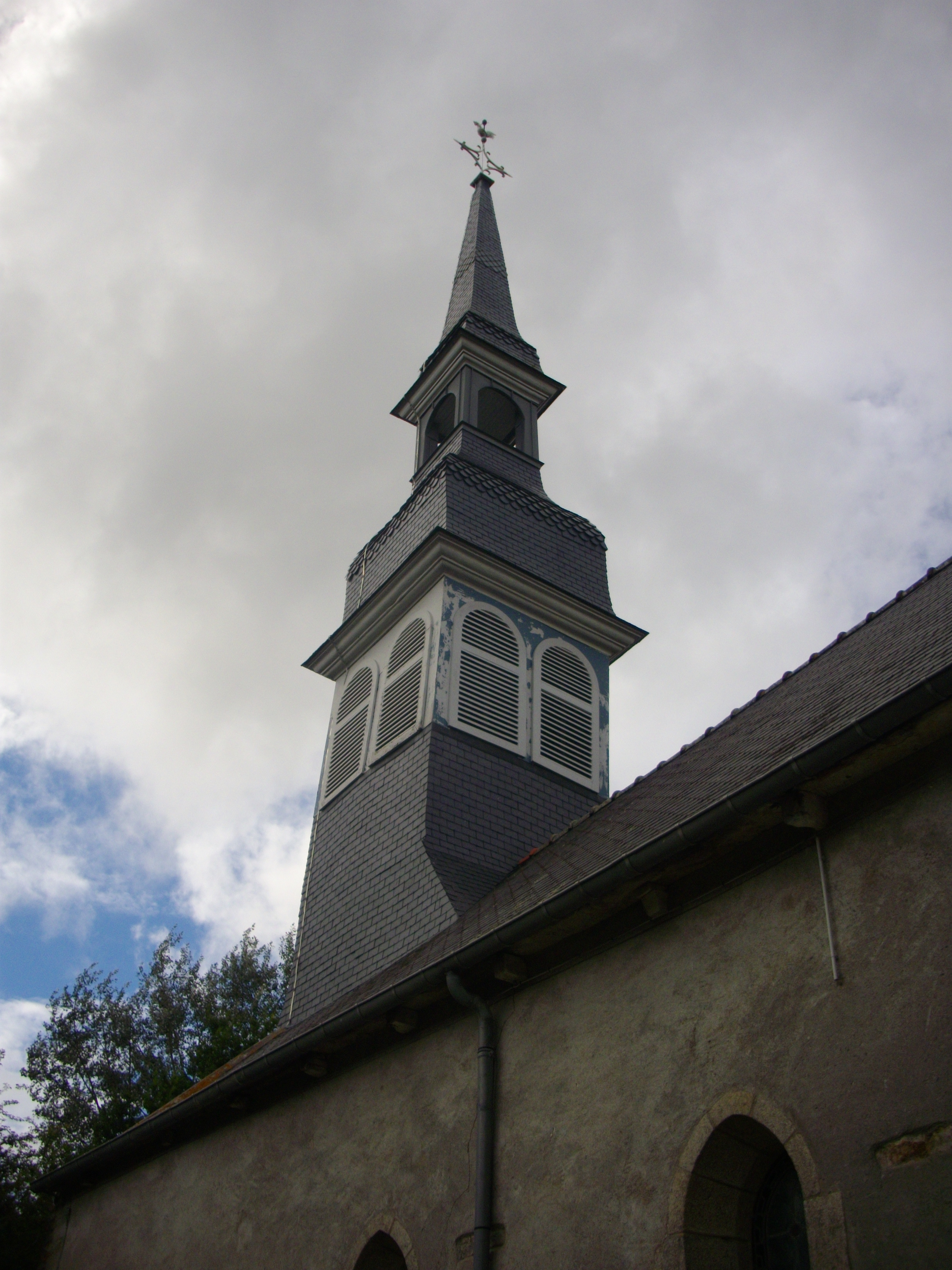 Saint Laur church of Montertelot (Morbihan, France)